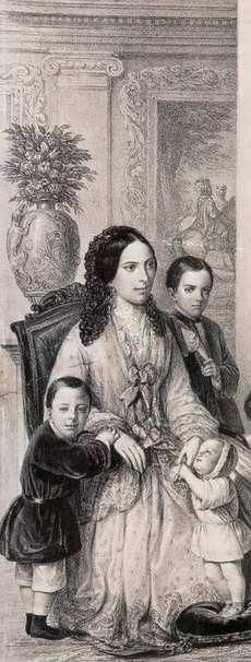 Detail of an 1854 drawing of the Family of Vittorio Emanuele II